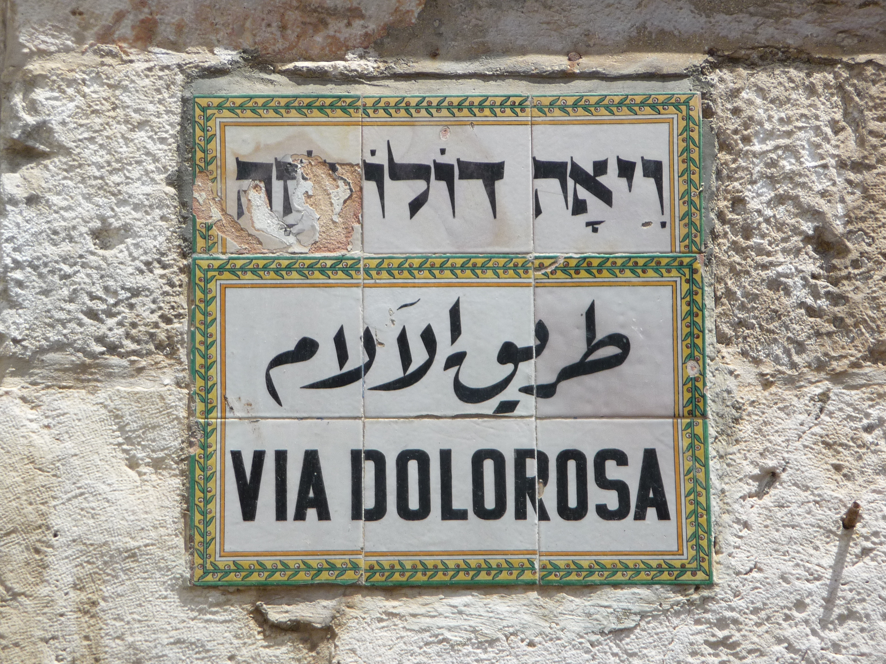 The Via Dolorosa (Latin for "Way of Grief," "Way of Sorrow," "Way of Suffering" or simply "Painful Way"; Hebrew: ויה דולורוזה; Arabic: طريق الآلام) is a street within the Old City of Jerusalem, believed to be the path that Jesus walked on the way to his crucifixion.